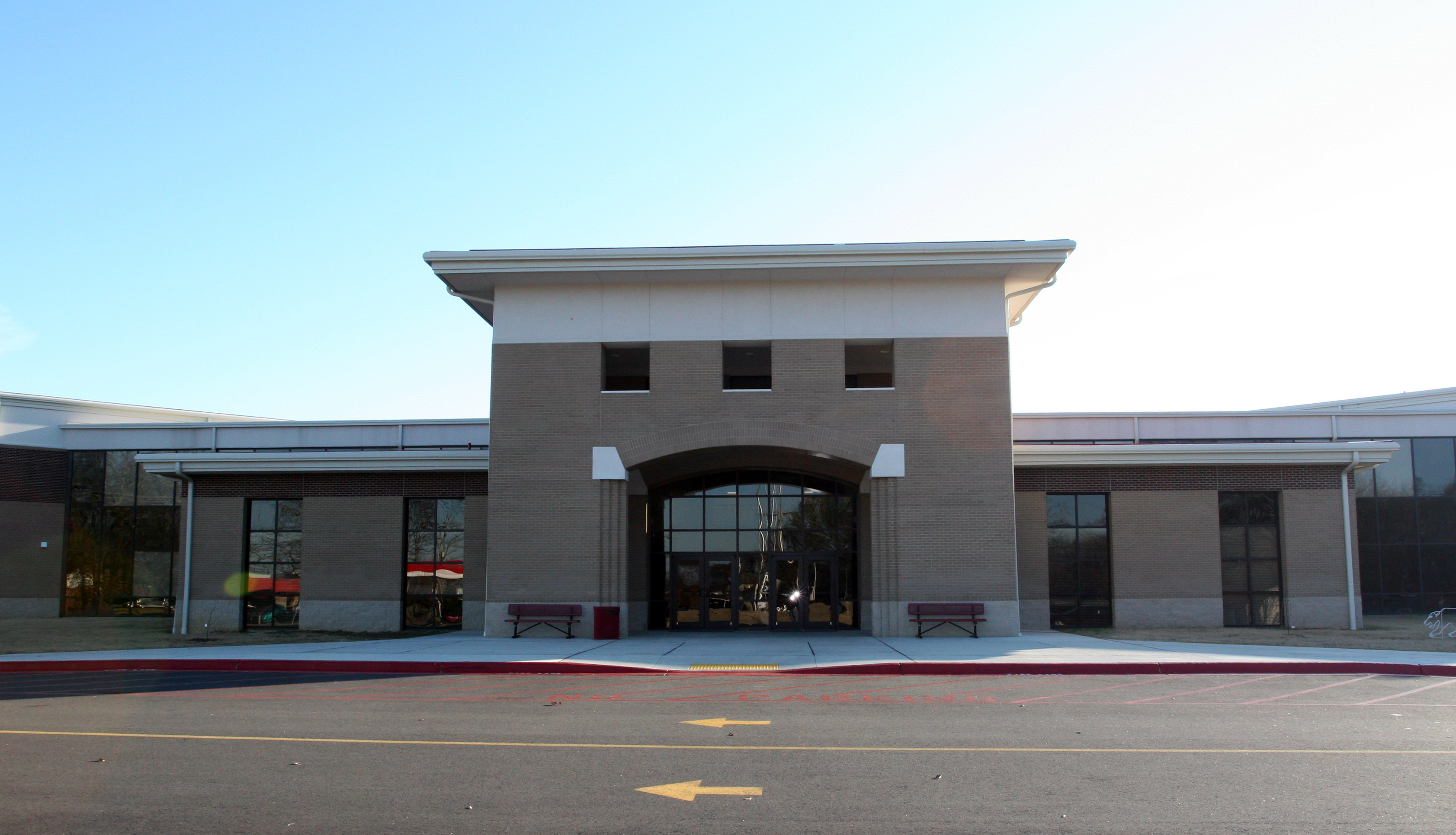 Image of front of Cabot High School in Cabot, Arkansas. Taken by me 12/06. Released into public domain.